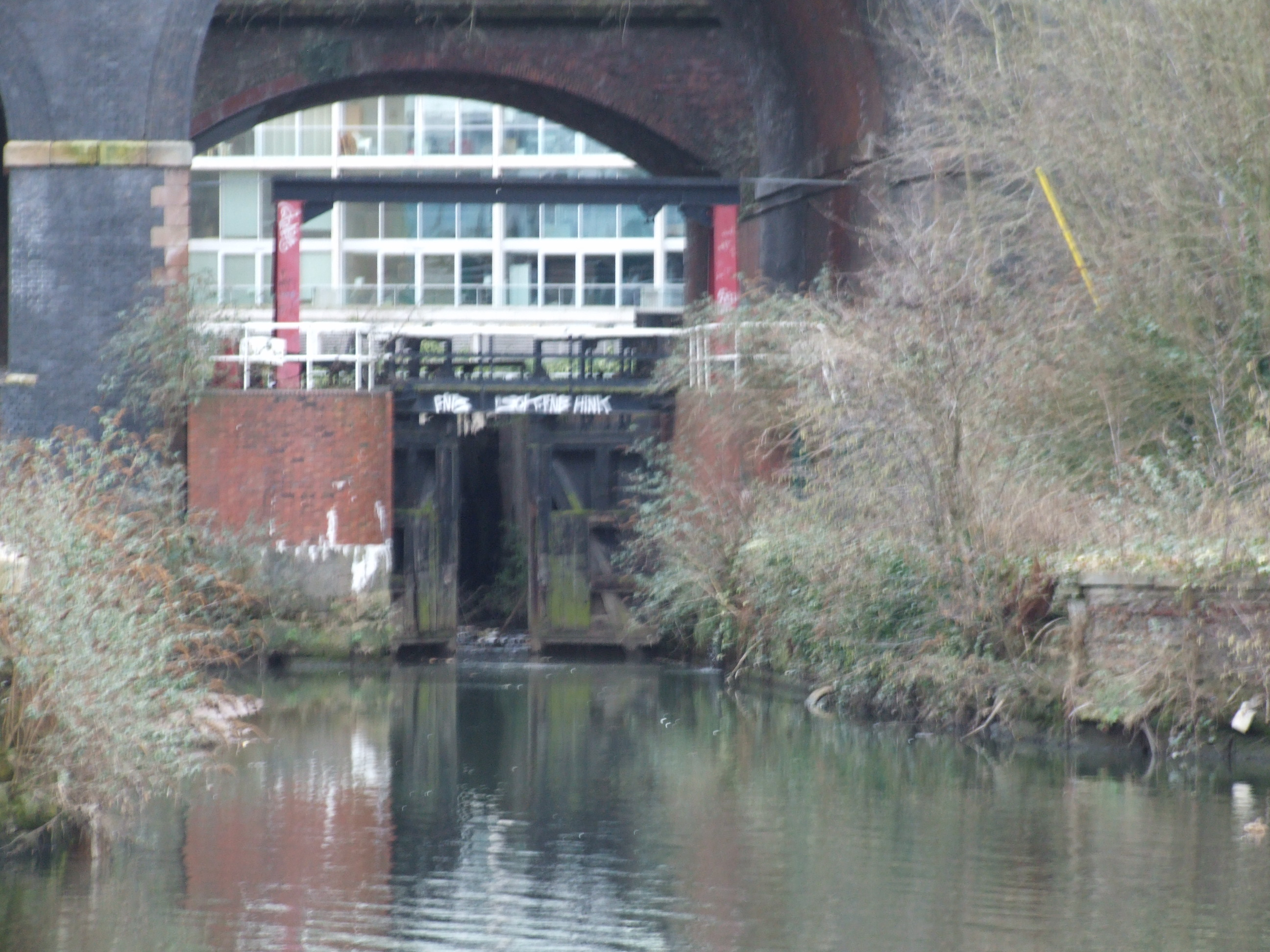 The Hulme Locks Branch Canalin Castlefield was built in 1839 to connect the River Irwell with the Bridgewater Canal. It joined Irwell at the confluence with the River Medlock. It was closed in 1995 when new link was concstructed at Pomona Docks. From the Irwell. We see the Medlock on the left and the Hulme Locks. - Google Maps - Google Earth